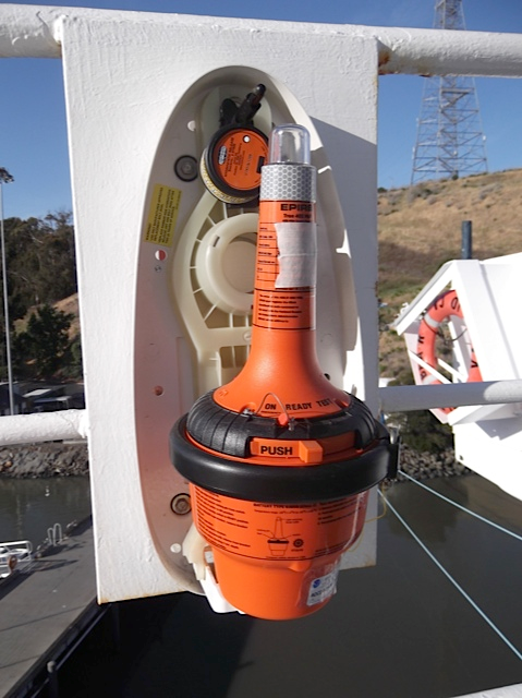 EPIRB mounted on the hydrostatic release with the cover off